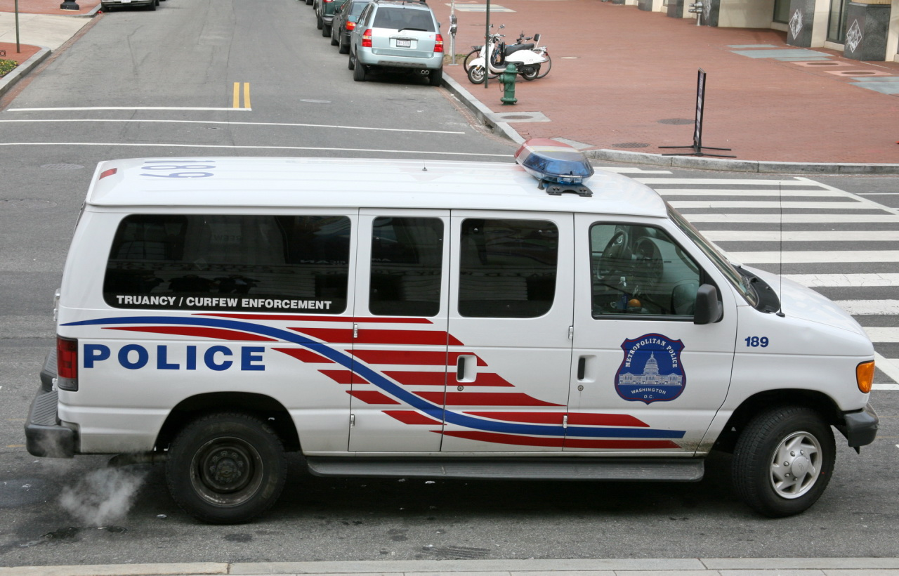 DC Police Truancy and Curfew enforcement vehicle. Washinton D.C., USA.